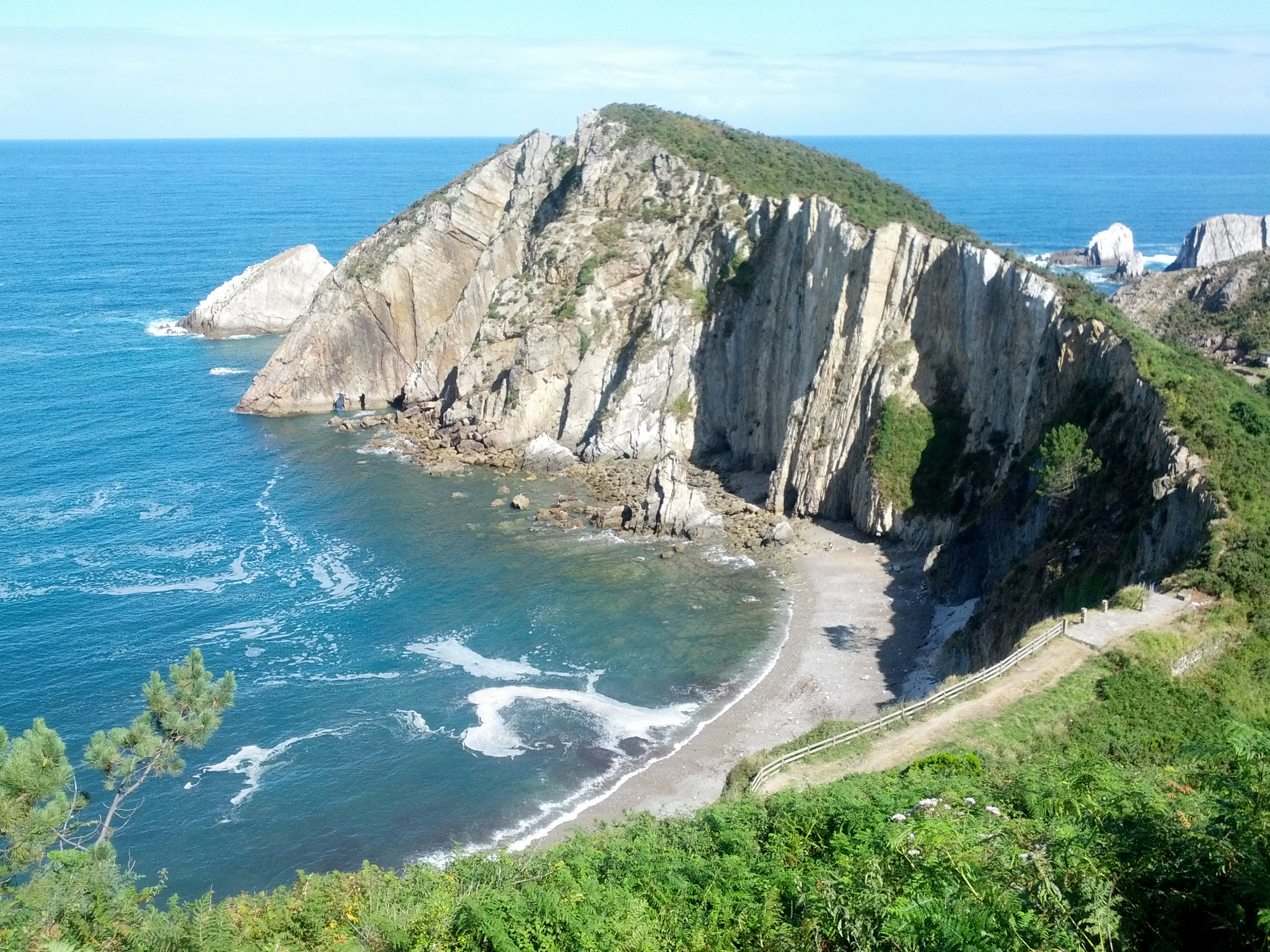 Beach "playa de silencio" in Asturias, Spain